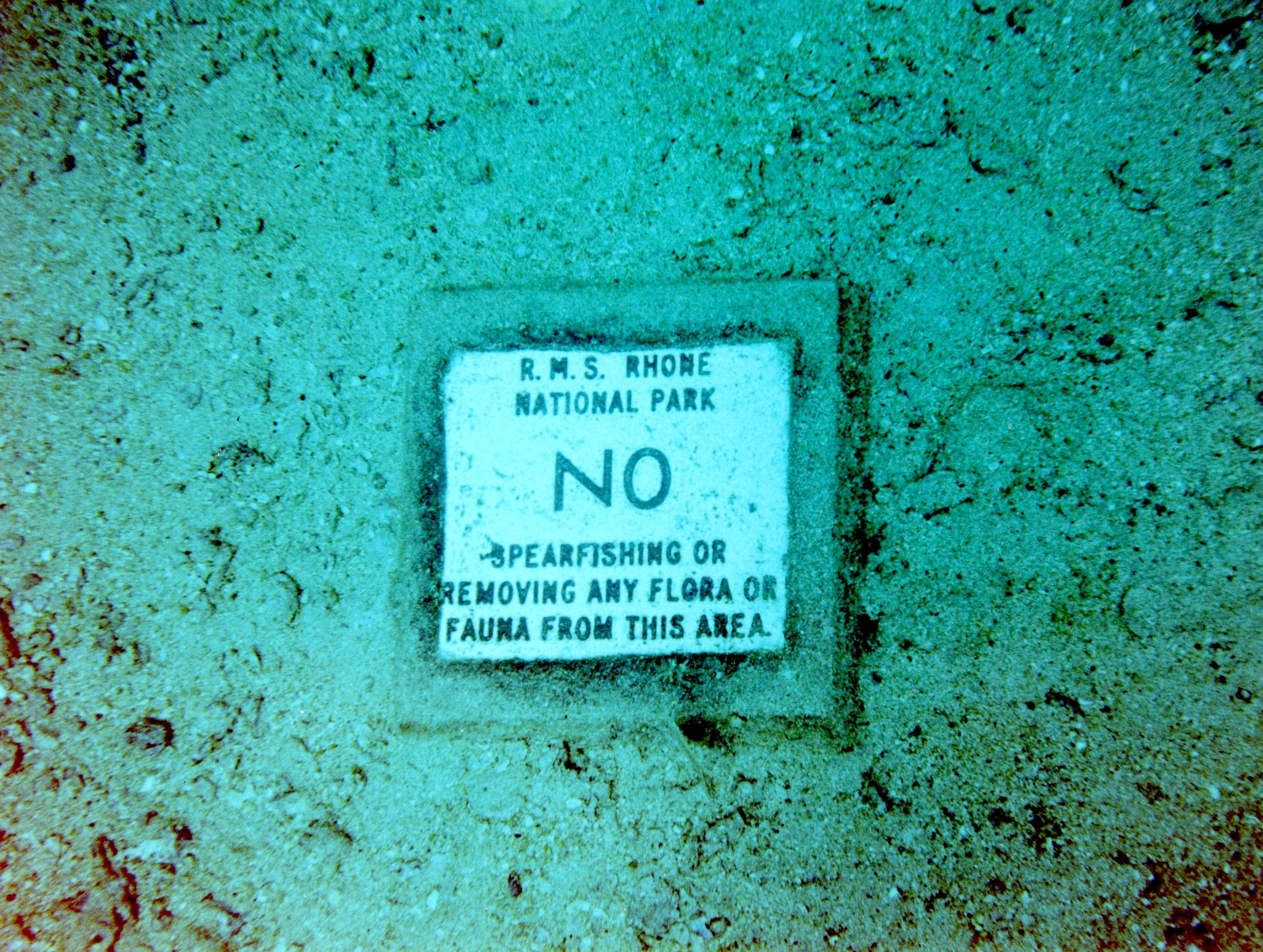 A sign on the ocean floor at a depth of 25 metres (80 feet) at RMS Rhone National Park off the coast of Salt Island in the Virgin Islands. The Rhone was sunk in a hurricane on 29 October 1867, and the wreck is now a popular scuba diving site.